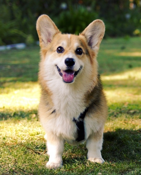 This is a tricolor pembroke welsh corgi.